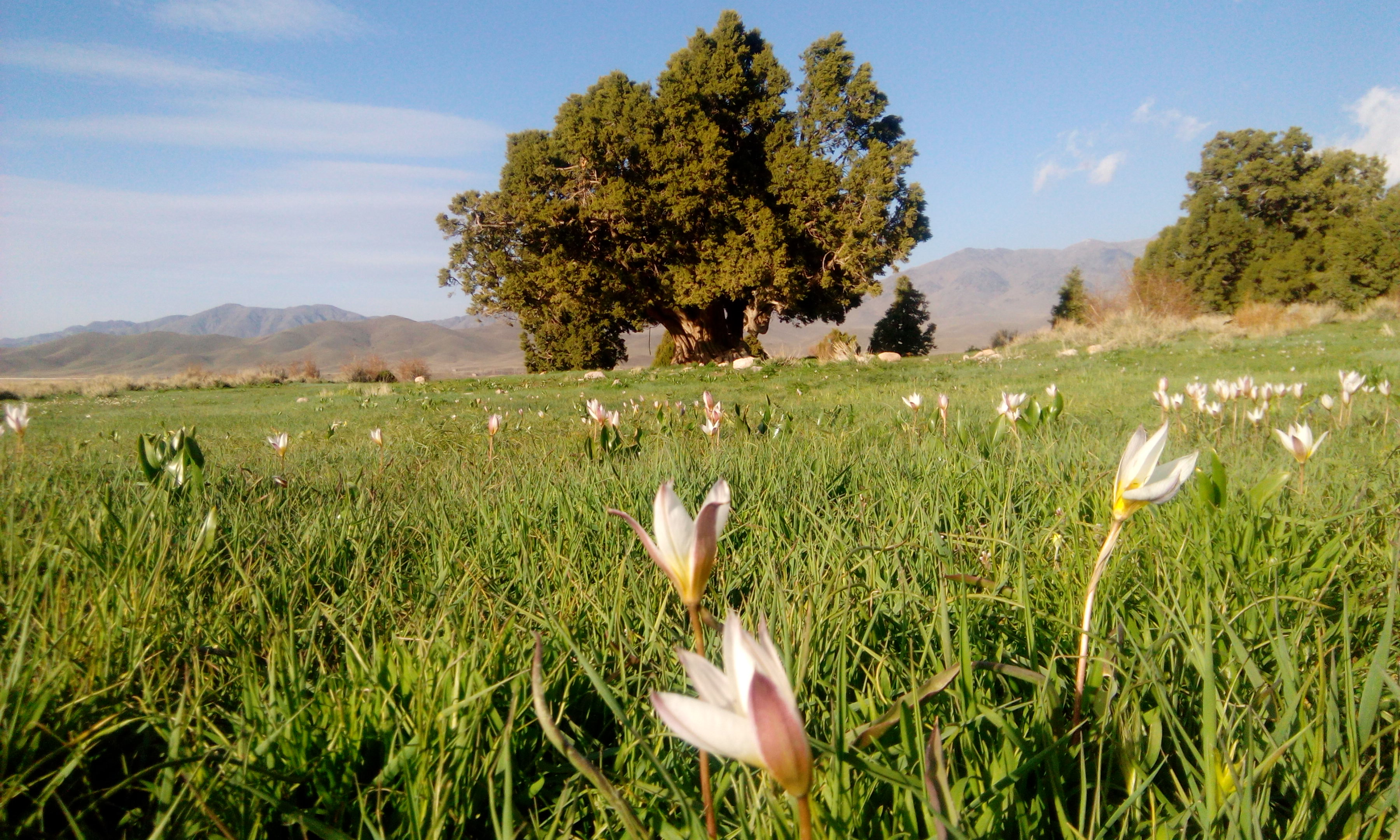 Sarbijan